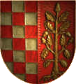 Coat of arms of Eckweiler